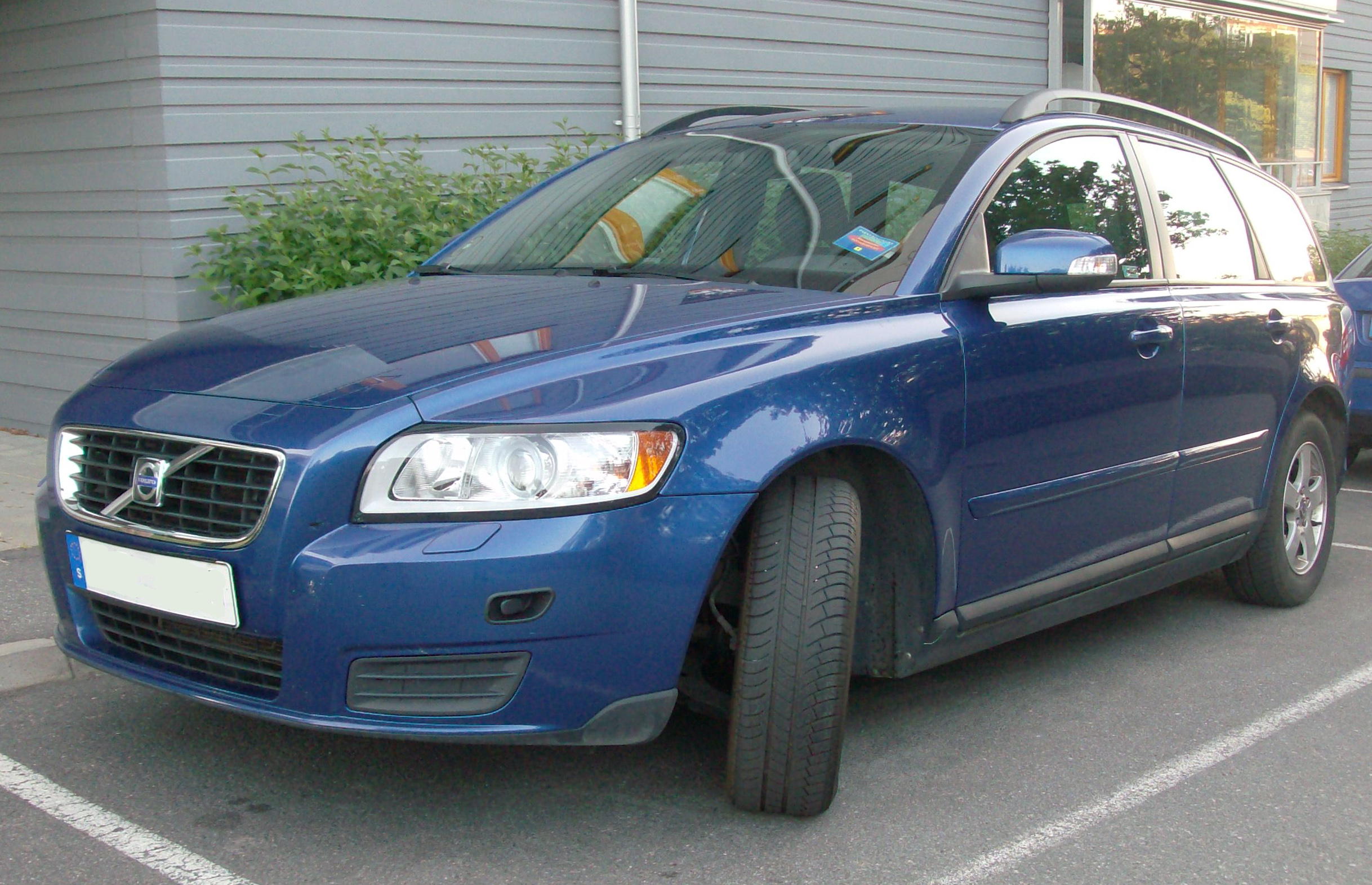 2009 Volvo V50 photographed in Gothenburg, Sweden.